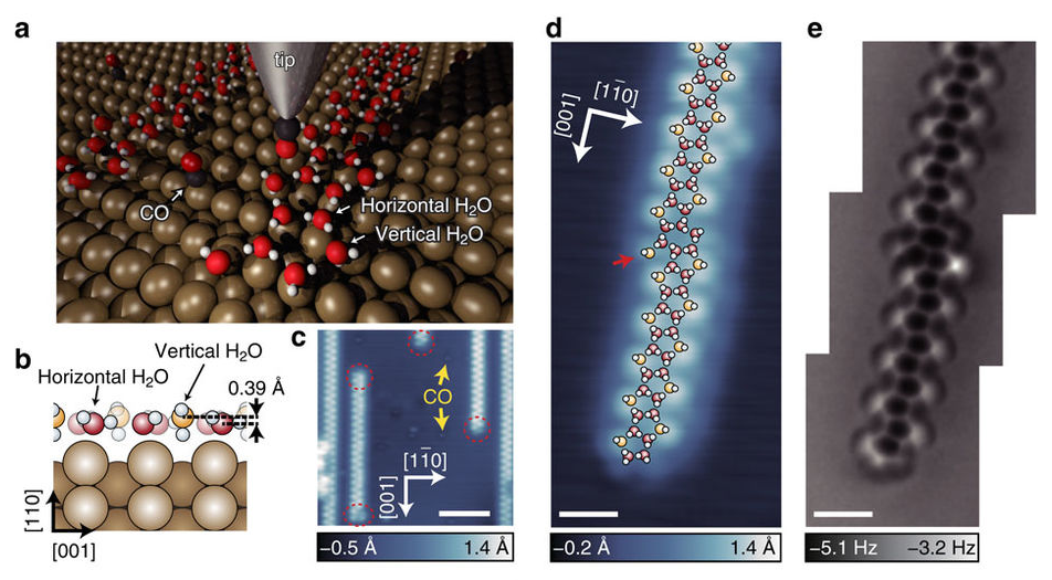 Water Single Atom